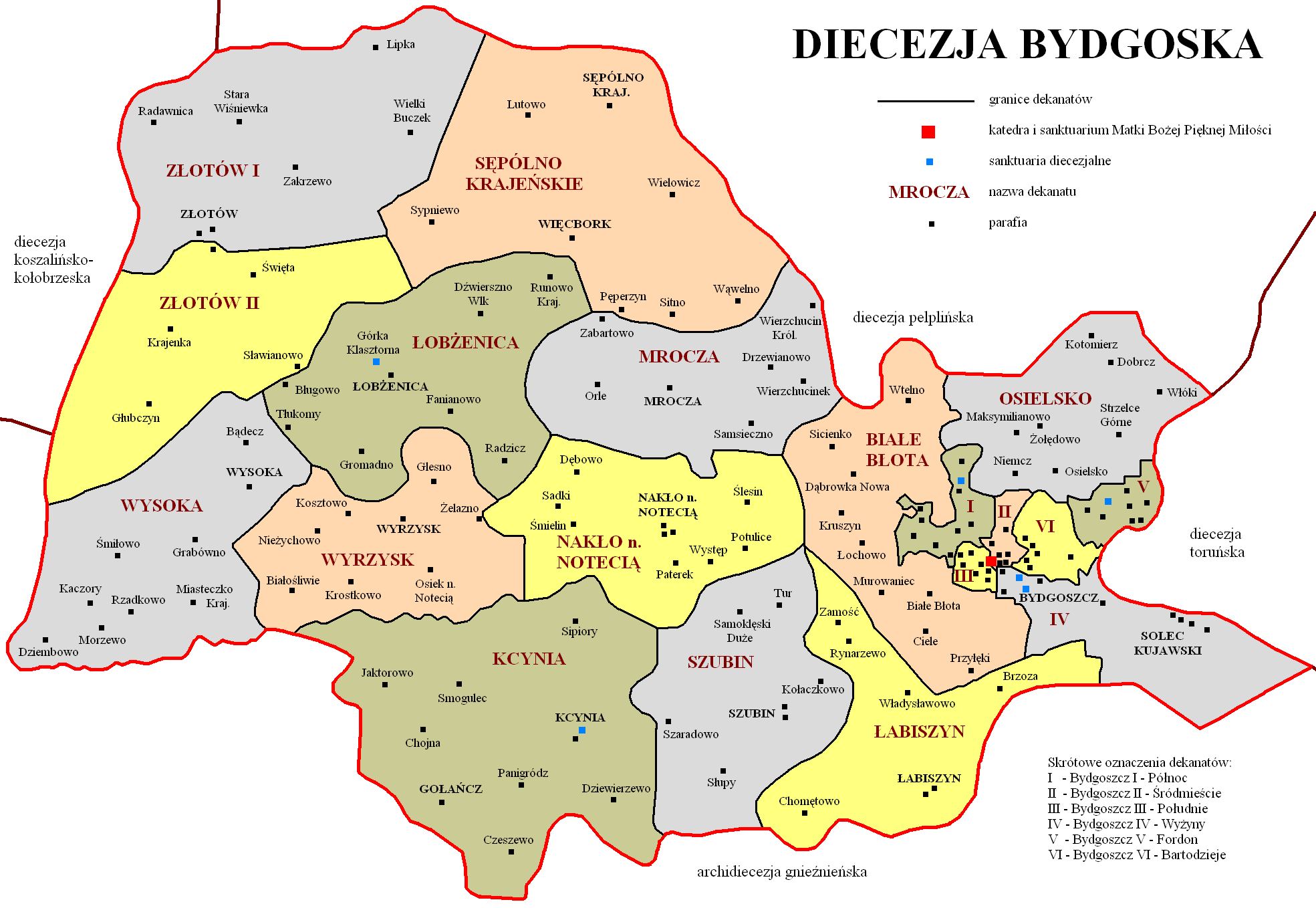 Map of catolic diocese of Bydgoszcz